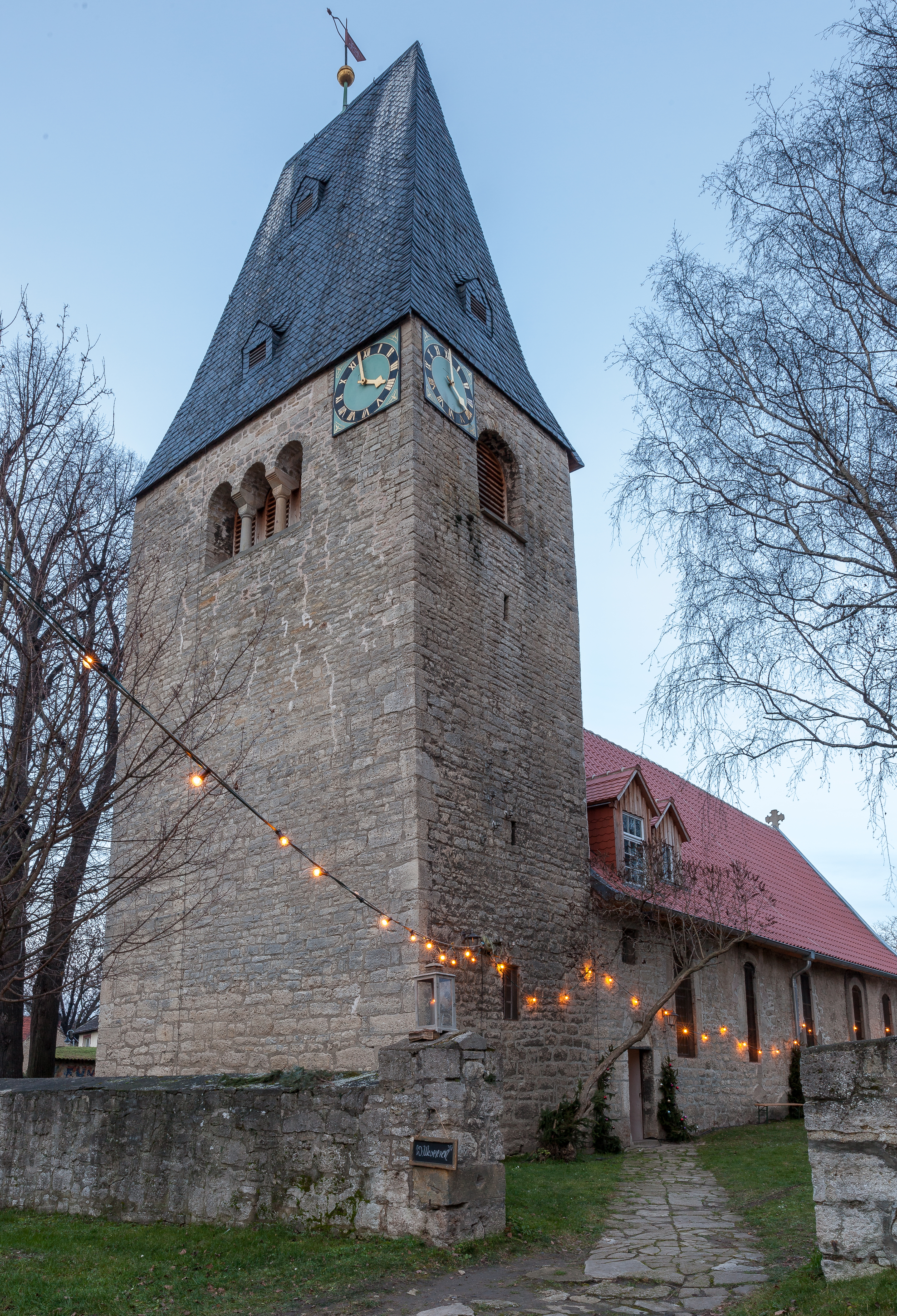 St. Valentin (14. Jh.), Deesdorf, Sachsen-Anhalt, Dezember 2015